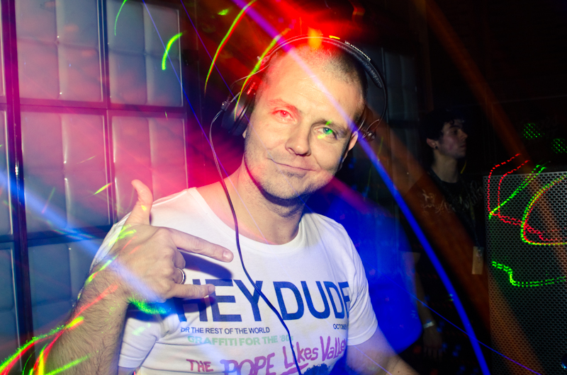 DJ Moguai (Andre Teleger) at Whiskey in Calgary AB